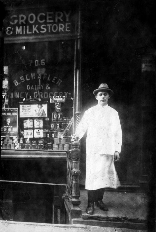 MY GRANDFATHER WITH HIS GROCERY STORE CIRCA 1929